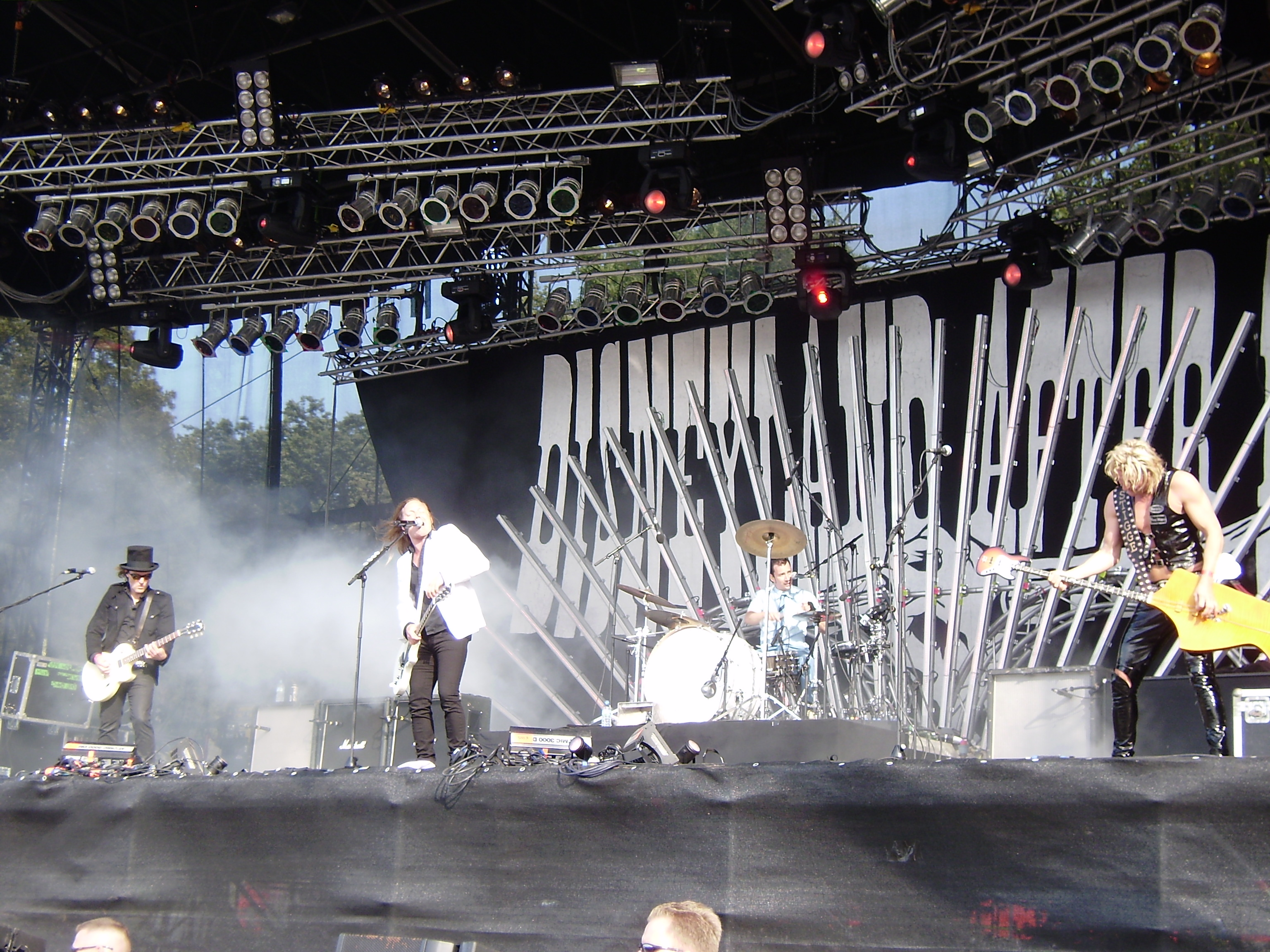 Danish band D-A-D live at Wacken Open Air 2009.